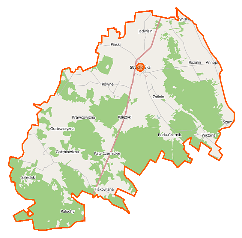 Map of Gmina Strachówka, Poland This map of Strachówka (gmina) was created from OpenStreetMap project data, collected by the community. This map may be incomplete, and may contain errors. Don't rely solely on it for navigation. Border coordinates52.468121.5047←↕→21.726552.3349